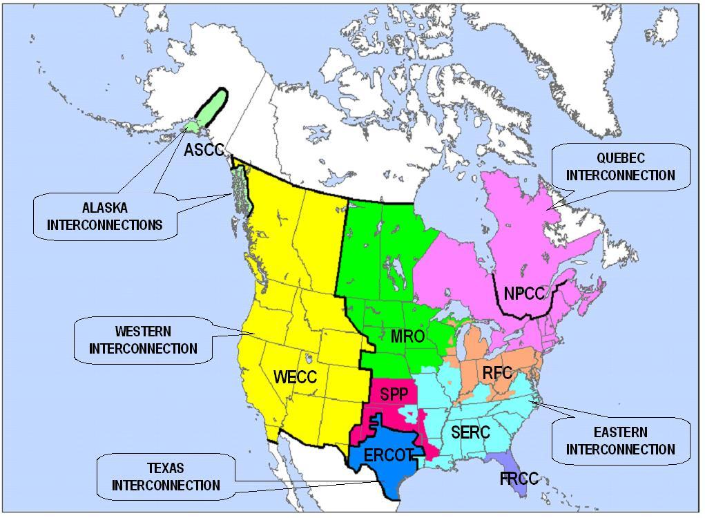 I created this image for use on WikiPedia